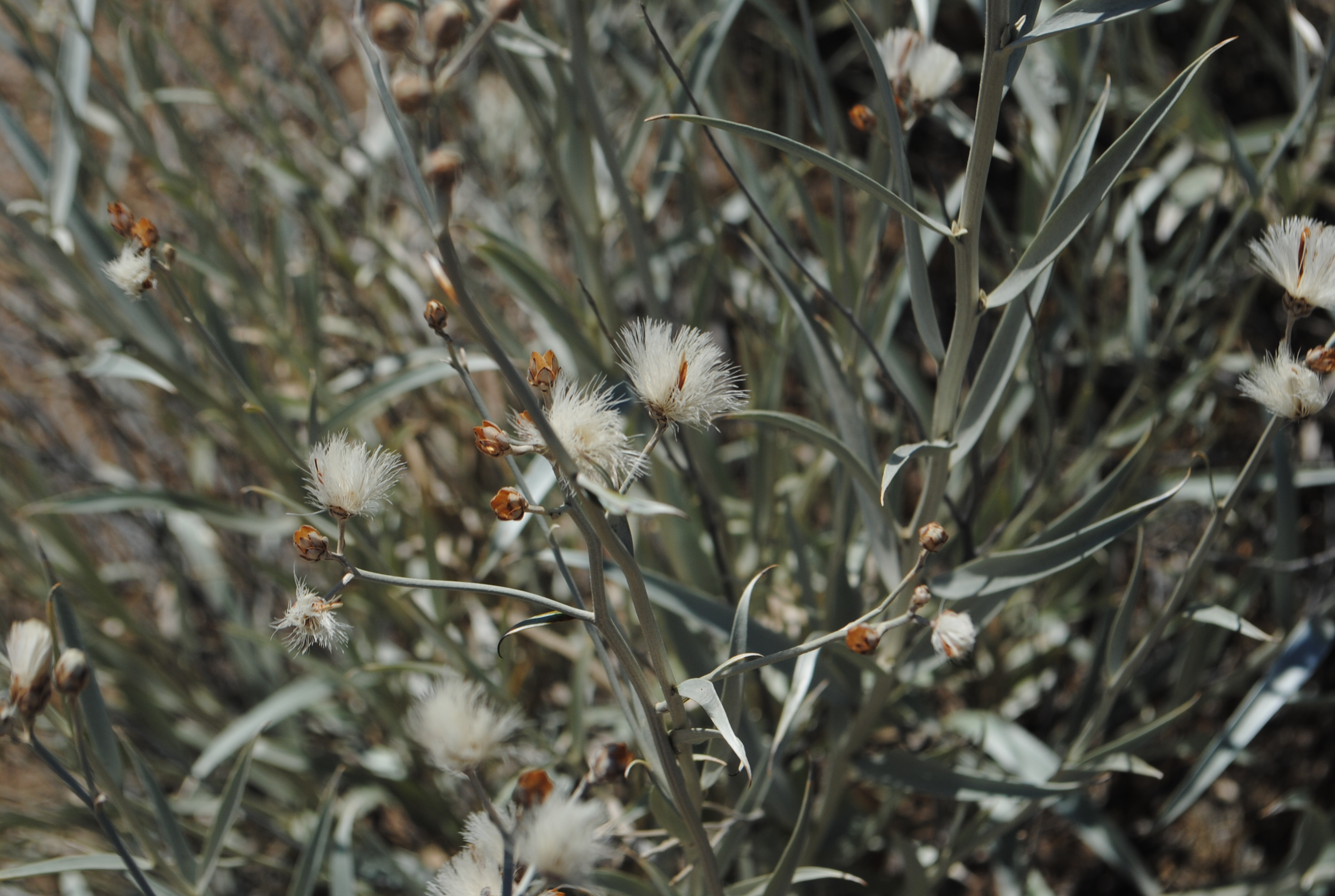 Hyalis argentea fruits, Rio Negro province, Argentina